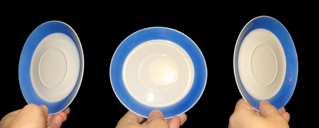 The Wilson effect for sunspots illustrated by common saucers. On the left saucer; the blue skirting to the left looks thicker than the right, with the opposite being true for the right saucer.